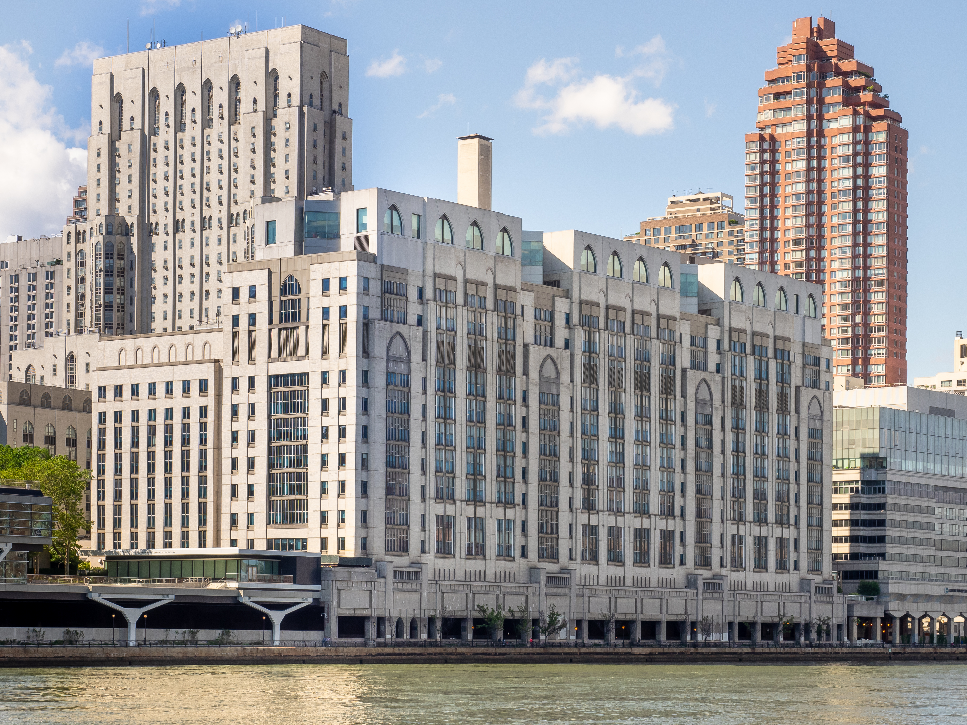 Upper East Side, NYC (shot from Roosevelt Island)